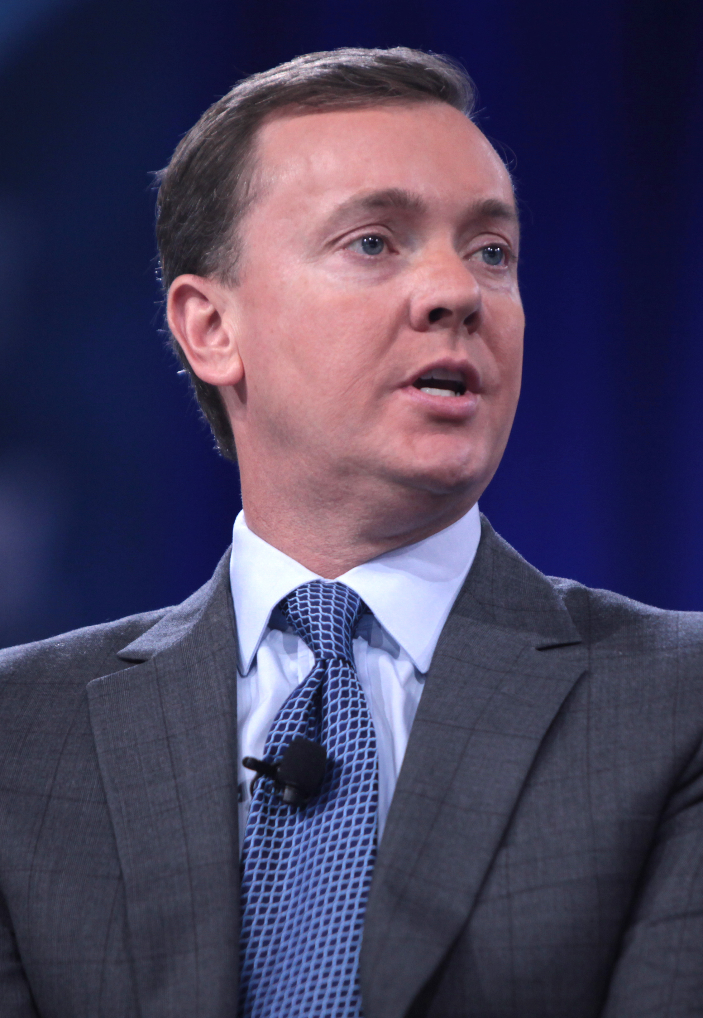 Chris Cox speaking at CPAC 2016 in National Harbor, Maryland.